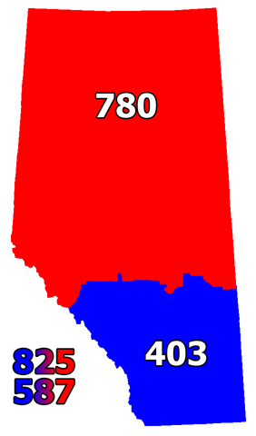 Area codes in Alberta.